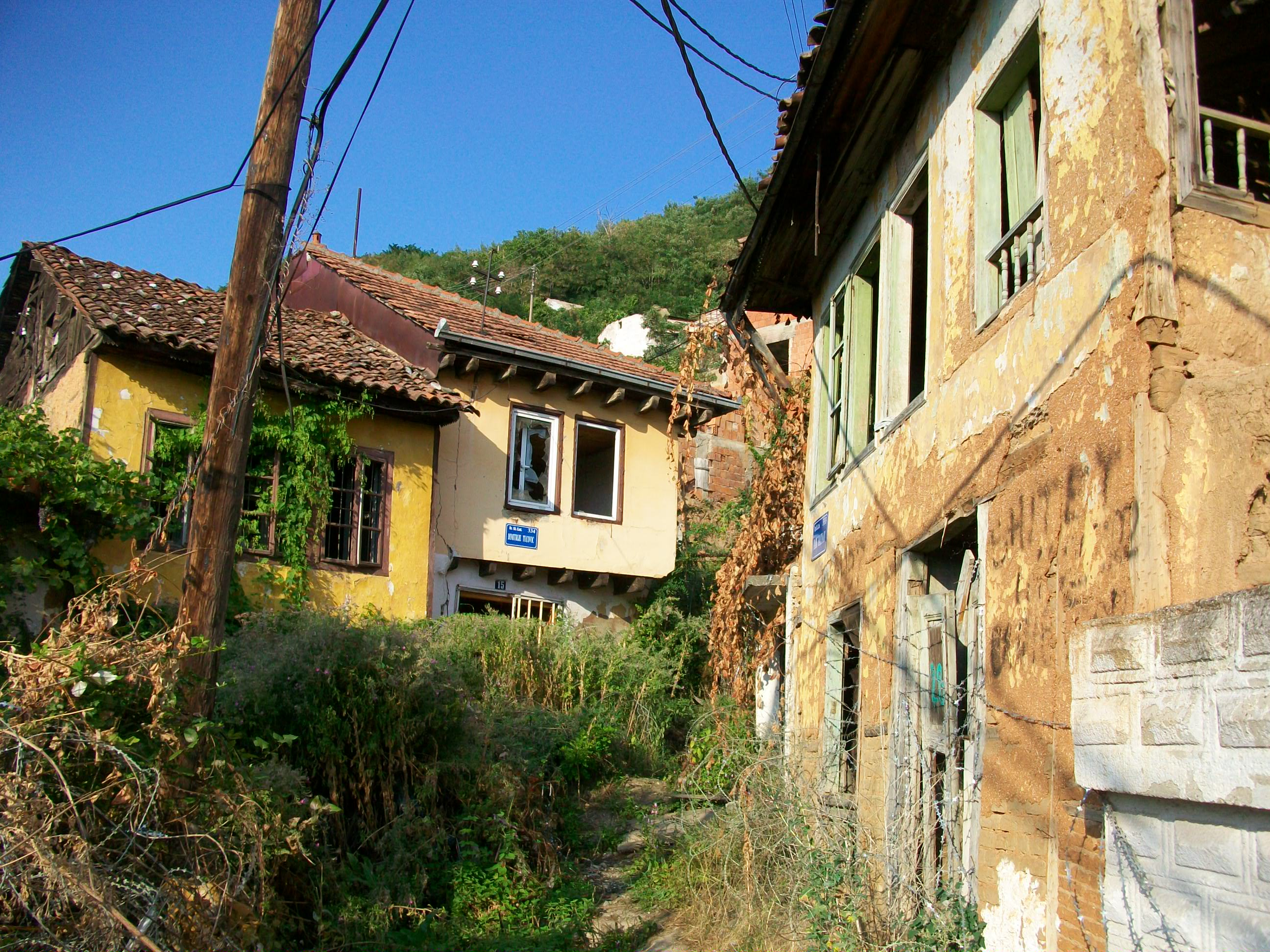 Pictures from Prizren Kosovo